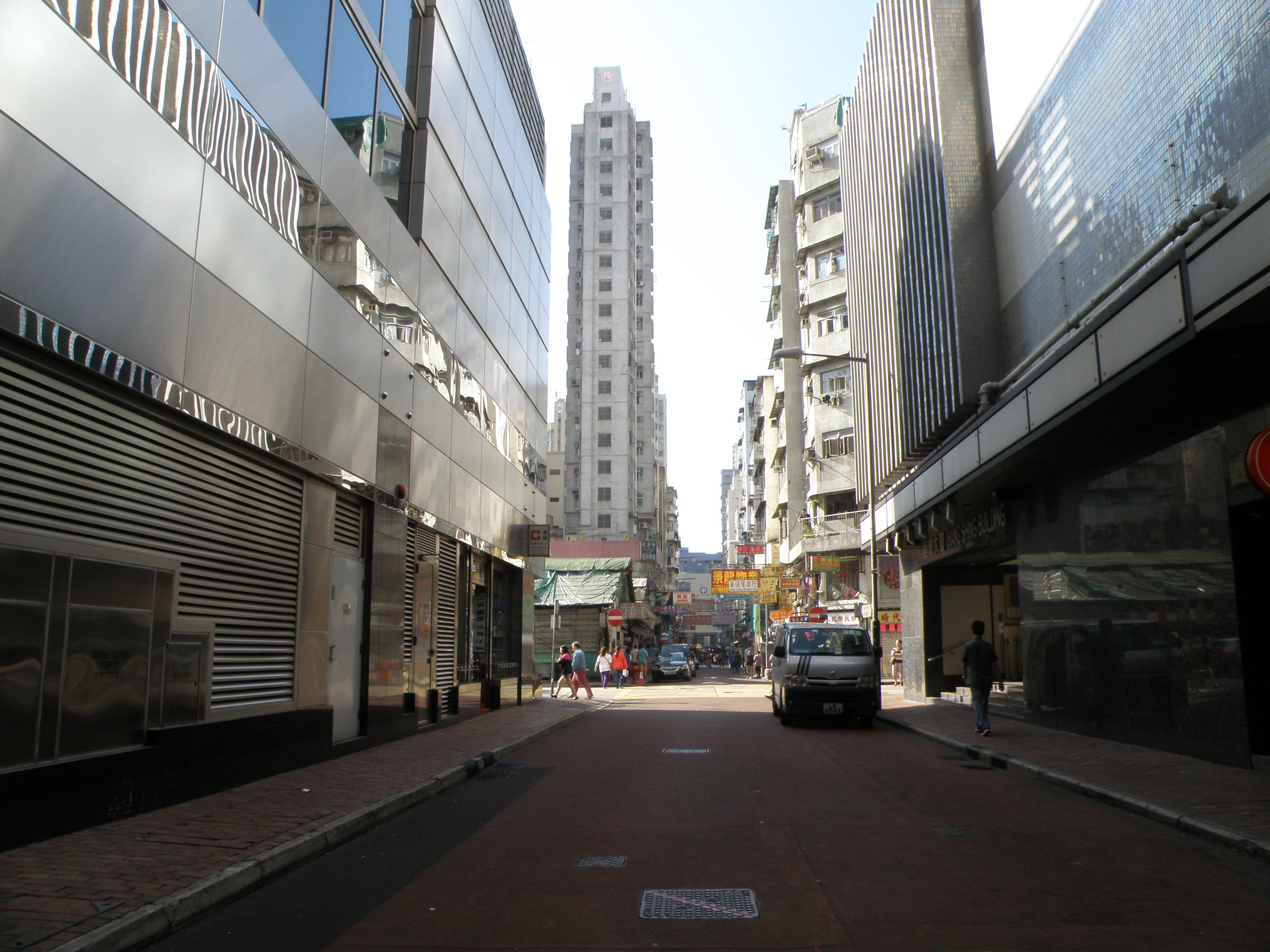 Pak Hoi Street in Jordan, Hong Kong.